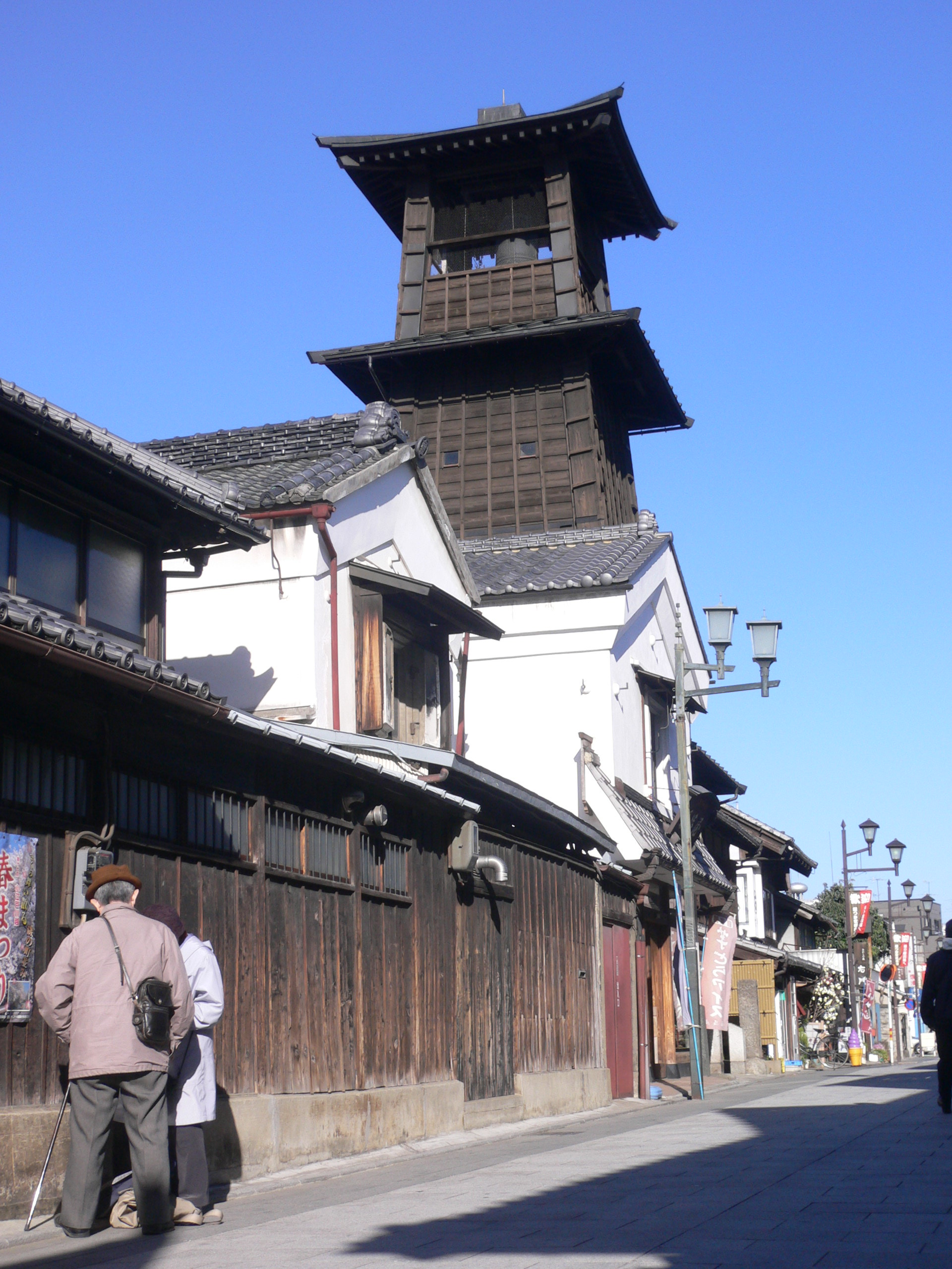 Tokinokane (時の鐘), Kawagoe C, Saitama P.